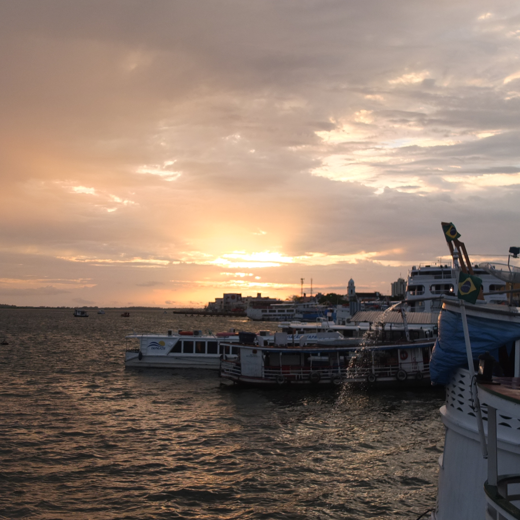 Wainting for the Boto